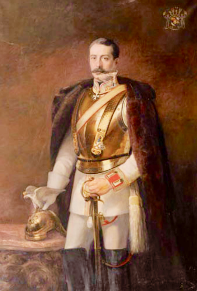 Alexander Otto Hugo Wladimir Fürst zu Münster von Derneburg, Ledenburg etc. (1858–1922), royal Prussian major à la suite and of legal profession.